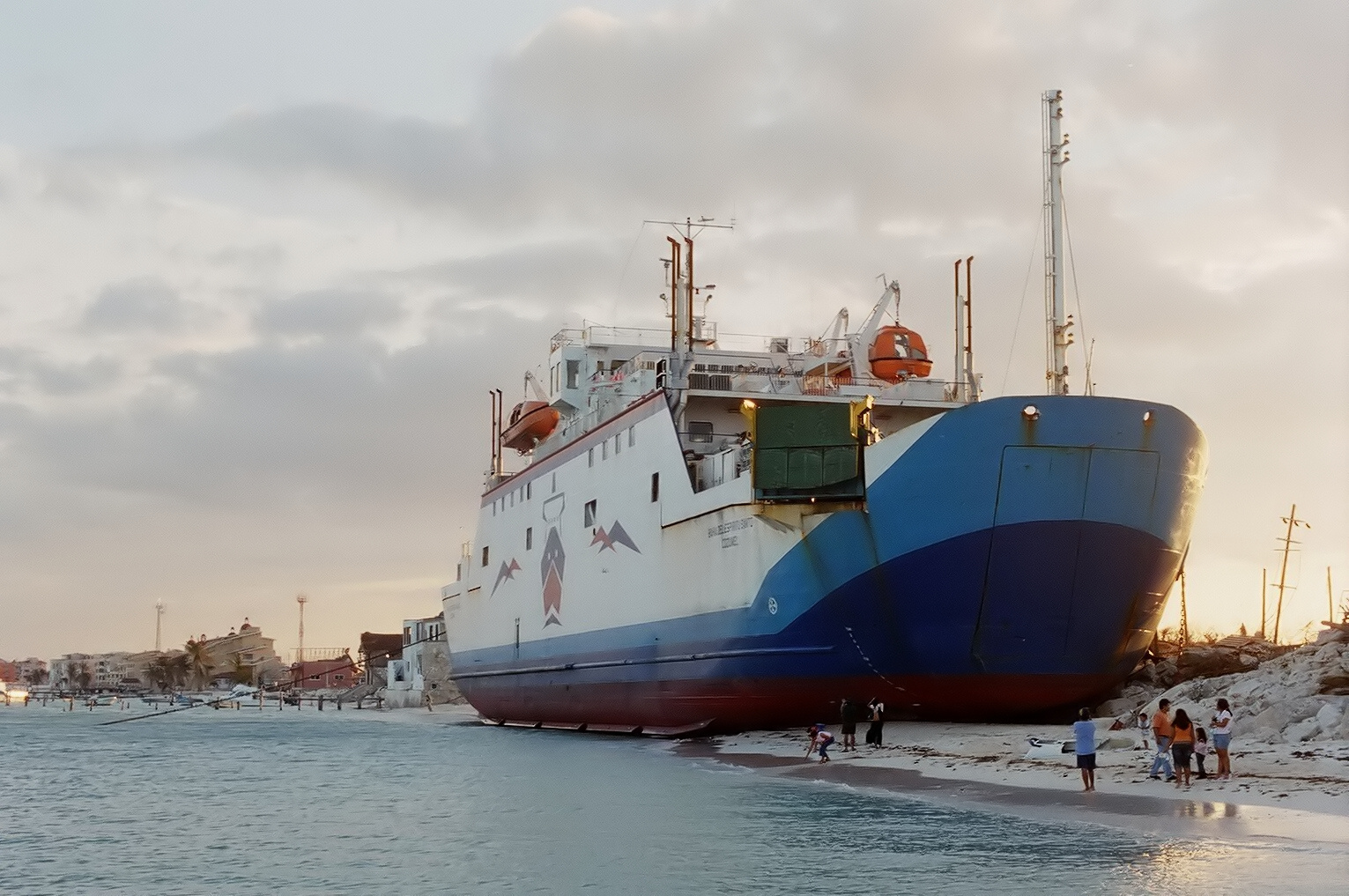 Ferry boat "Bay of the Holy Spirit" stranded in 3.5 km of the road to Puerto Juarez and Punta Sam.